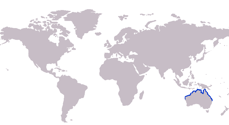 Distribution of the Golden lined whiting, Sillago analis using map based on GDFL image